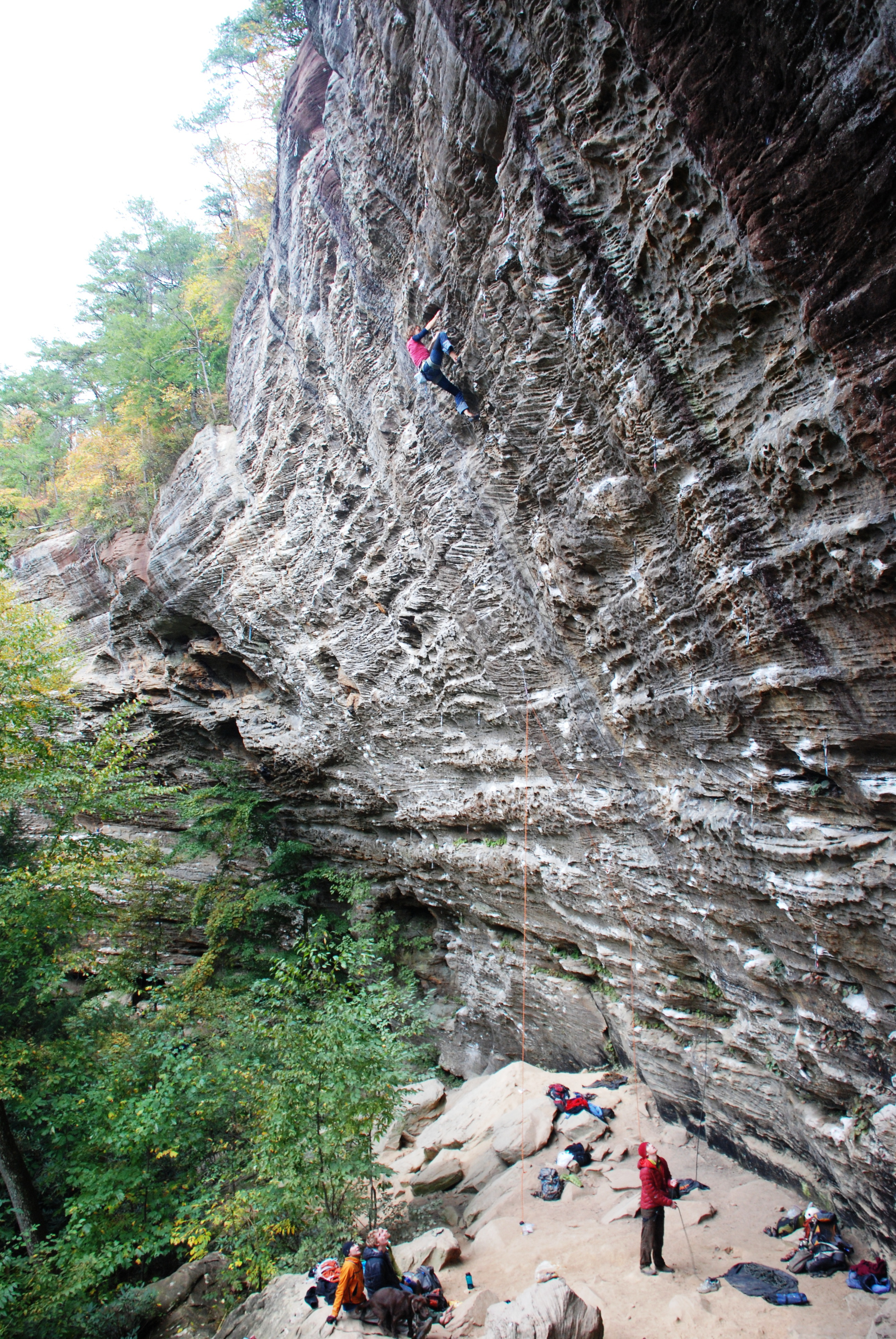 Climber on Convicted (5.13a) in The Motherlode area in Red River Gorge of Kentucky